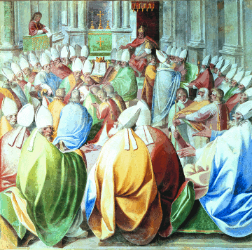 Fourth Council of Constantinople (869-870)